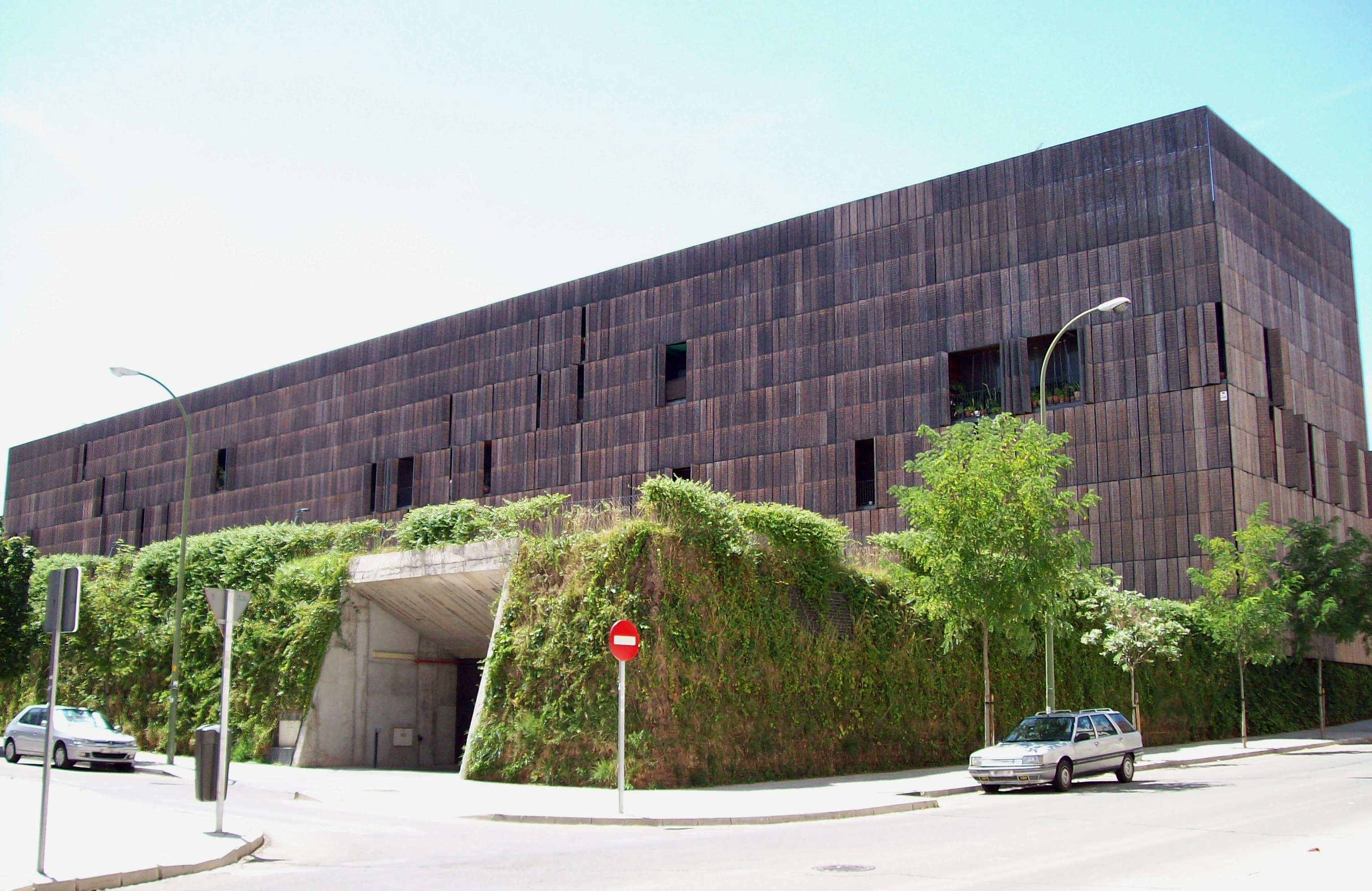 East façade of Bamboo Building in Madrid (Spain).